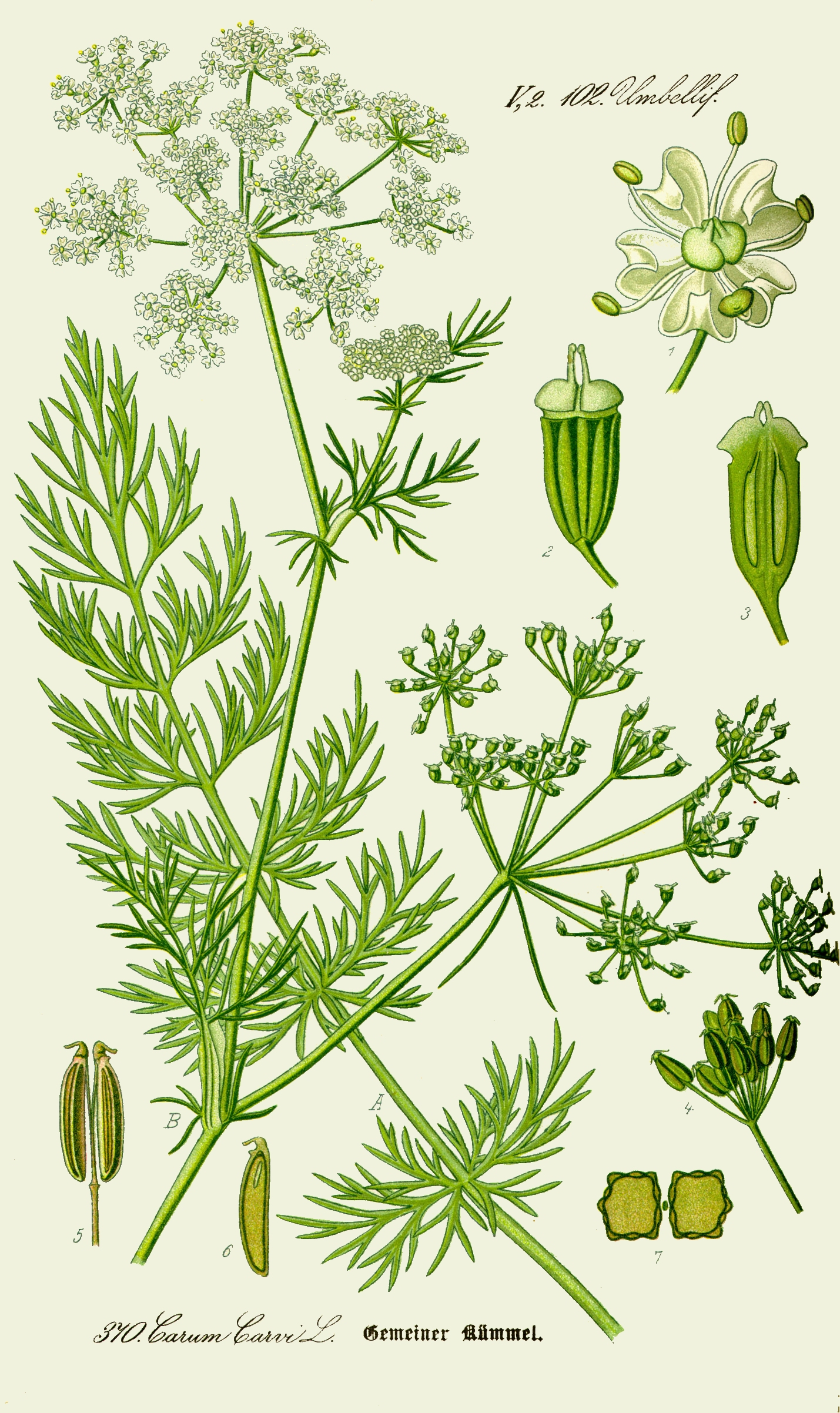 Name Carum carvi Family Apiaceae